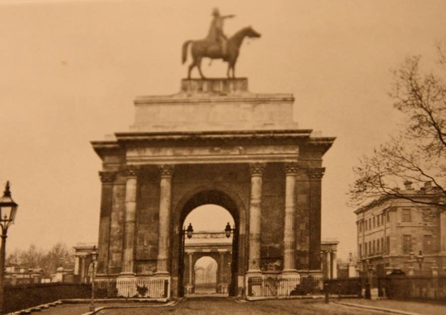 Photograph of the Wellington Statue located in Aldershot in Hampshire since 1885